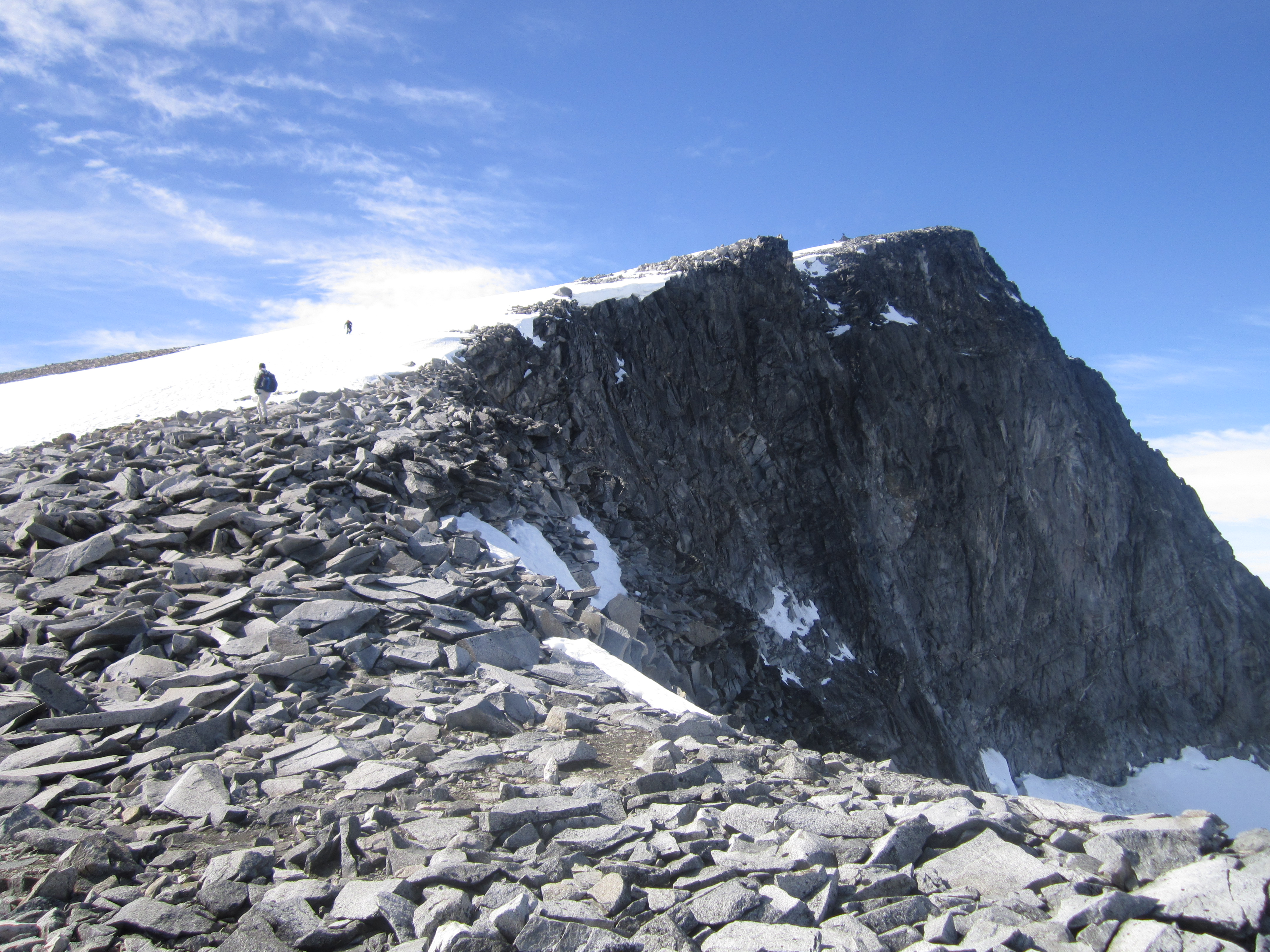 A close-up picture of Galdhøpiggen, with two hikers in the background. The mountain hut at the summit is slightly visible at the top of the image.